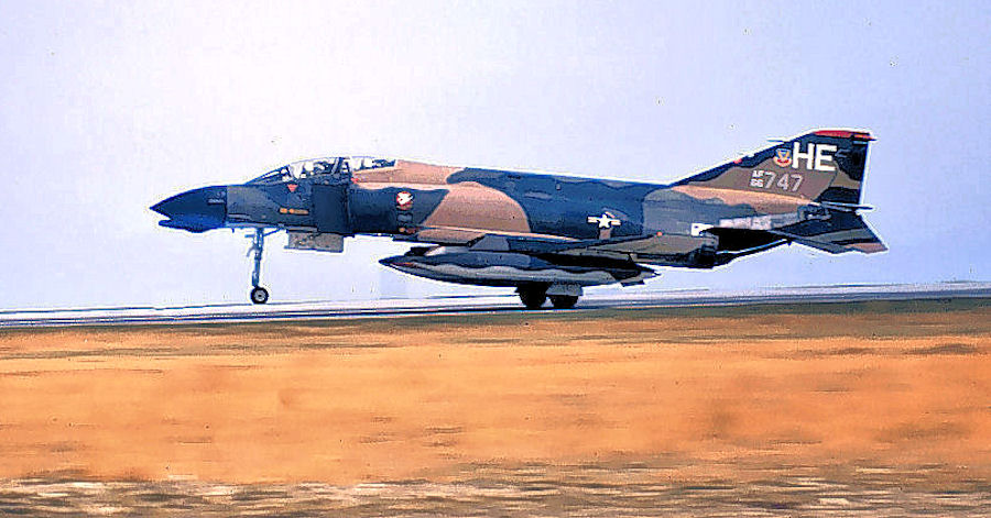 9th Tactical Fighter Squadron, 49th Tactical Fighter Wing McDonnell F-4D-28-MC Phantom 65-0747, Holloman AFB, New Mexico. Aircraft retired to AMARC as FP191 Jan 5, 1989. Previously displayed on pylon at Navarro College, Corsicana, TX in spurious Thunderbird markings. Per National Museum of the United States Air Force direction, relocated to Orlando Executive Airport, Orlando, FL in Jul 2014 for restoration in Vietnam-era camouflage/markings and eventual pylon display at Colonel Joe Kittinger Park at the airport.